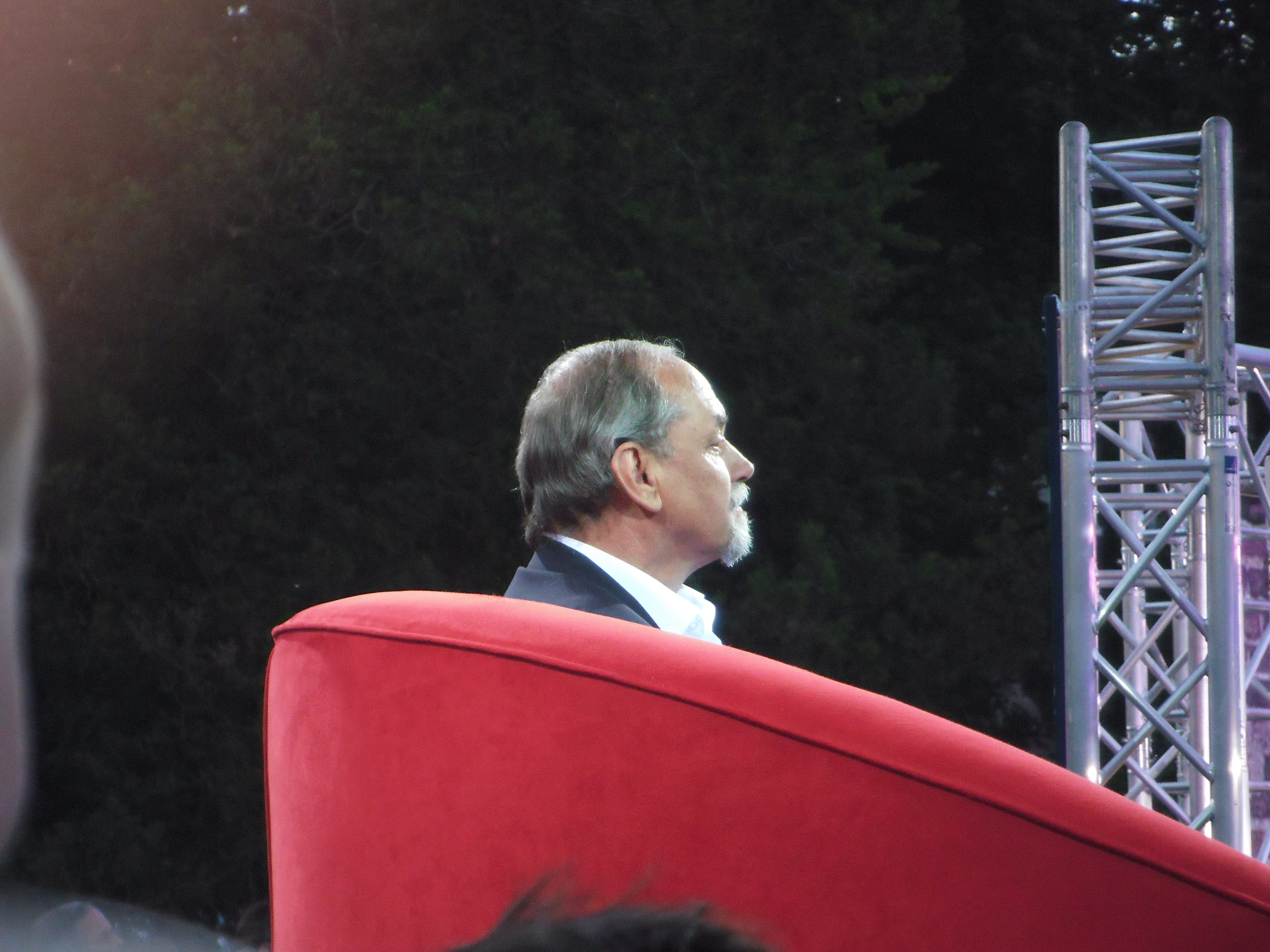 Wilhelm Ruhkopf at the NDR-Schaubude-DAS!-Duell finals 2010 at Soltau